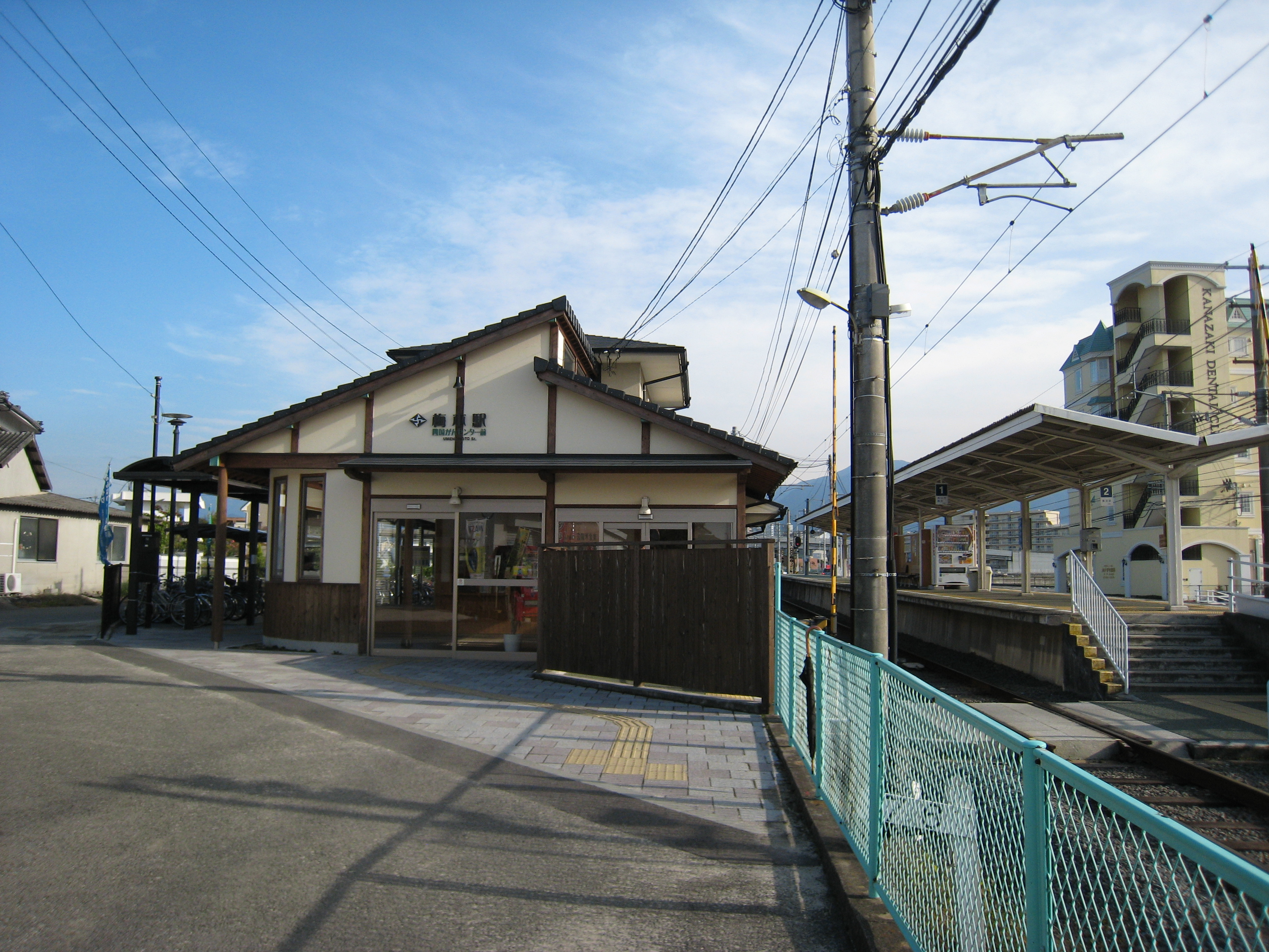 Iyo Railway [Sta.Umenomoto]